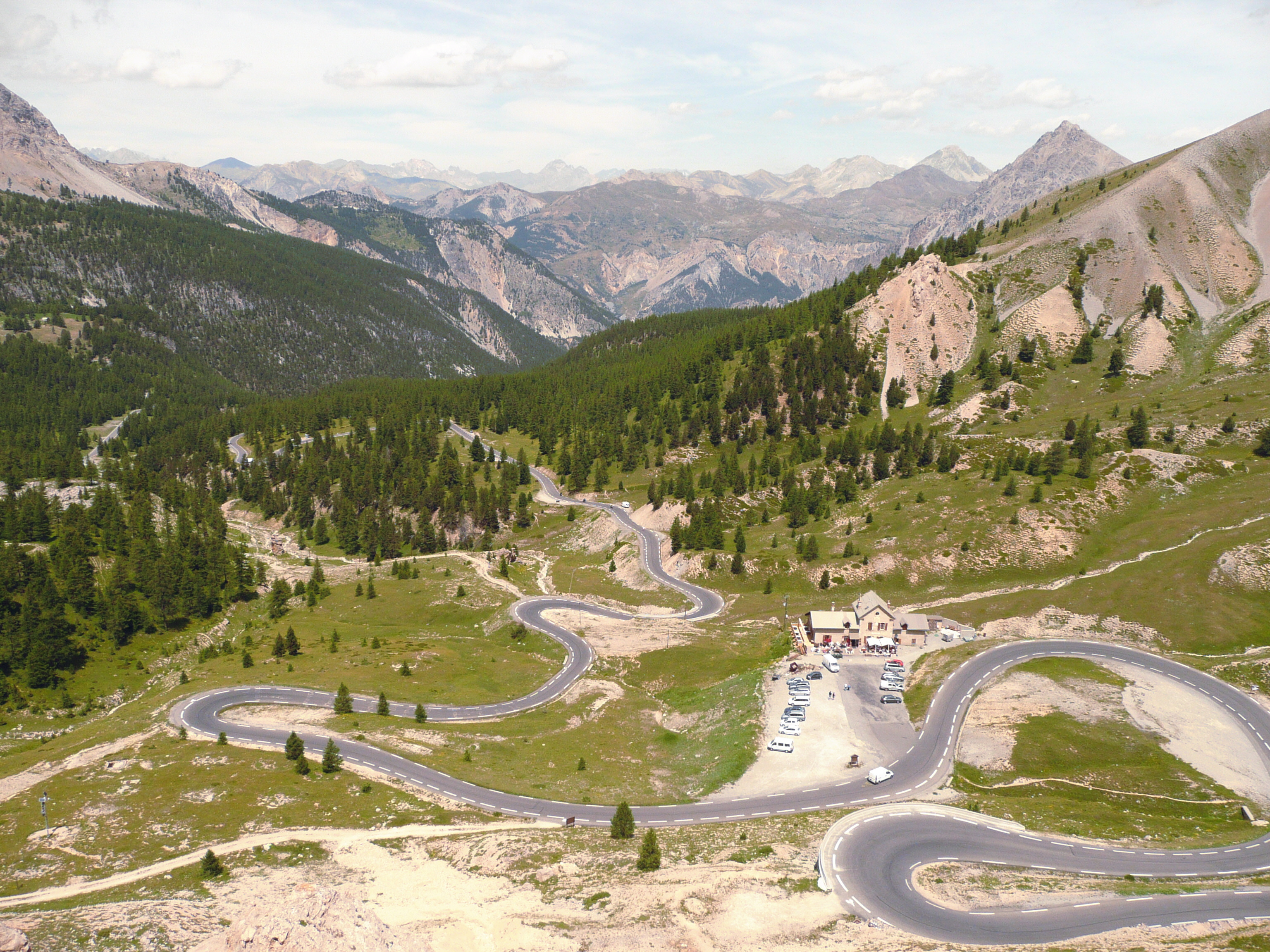 Col Izoard, north part of the street, just after the pass